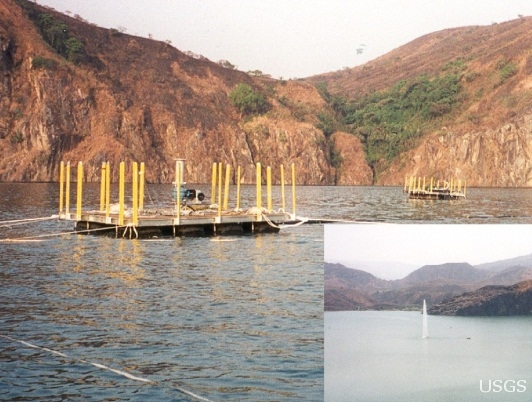 In 1986, Lake Nyos, in the volcanic region of Cameroon, released a cloud of CO2 into the atmosphere, killing 1,700 people and 3,500 livestock in nearby towns and villages. Since then, engineers have been artificially removing the gas from the lake through piping. This photo shows a pipe top and raft at Lake Nyos. The self-driven fountain (inset) can reach a height of 150 feet above the lake surface while dissipating carbon dioxide.